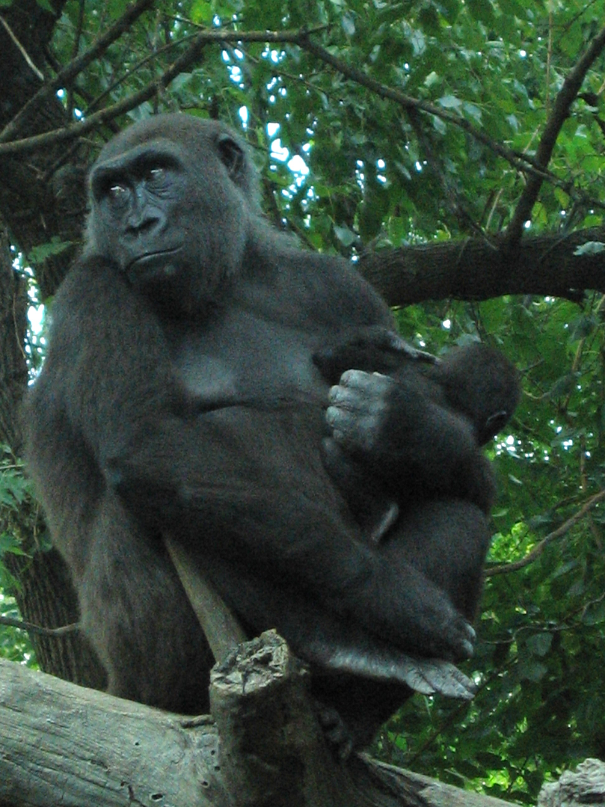 Western Lowland Gorilla (Gorilla gorilla gorilla), with young. Bronx Zoo, New York City.